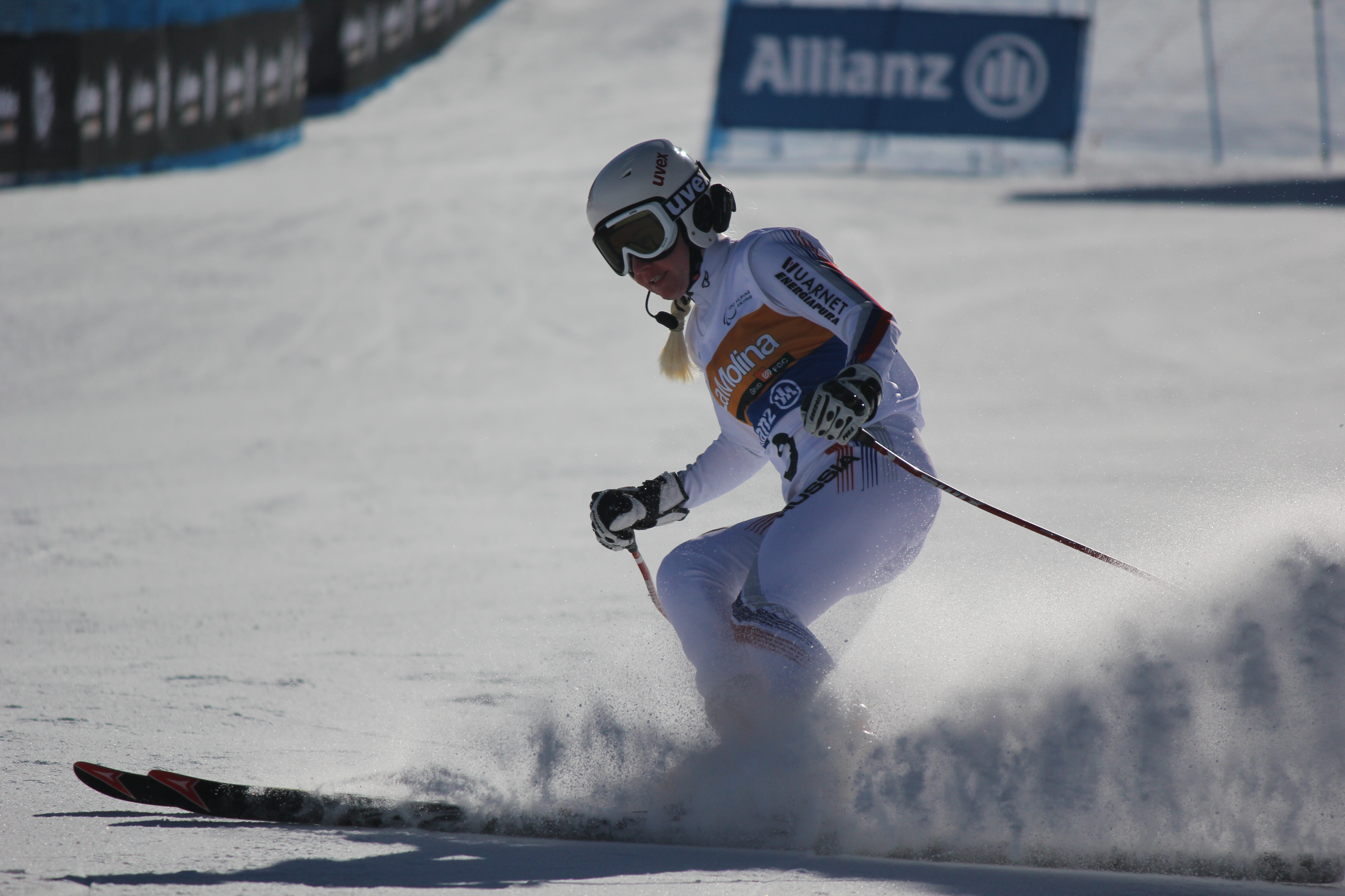 2013 IPC Alpine World Championships at La Molina in Spain. Day 2. Super-g final for women's visually impaired. Alexandra Frantseva